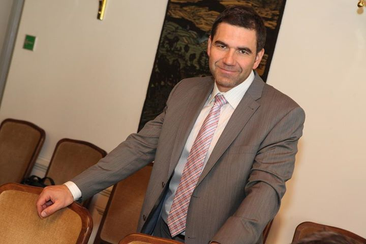 Ing.Jirout,MBA